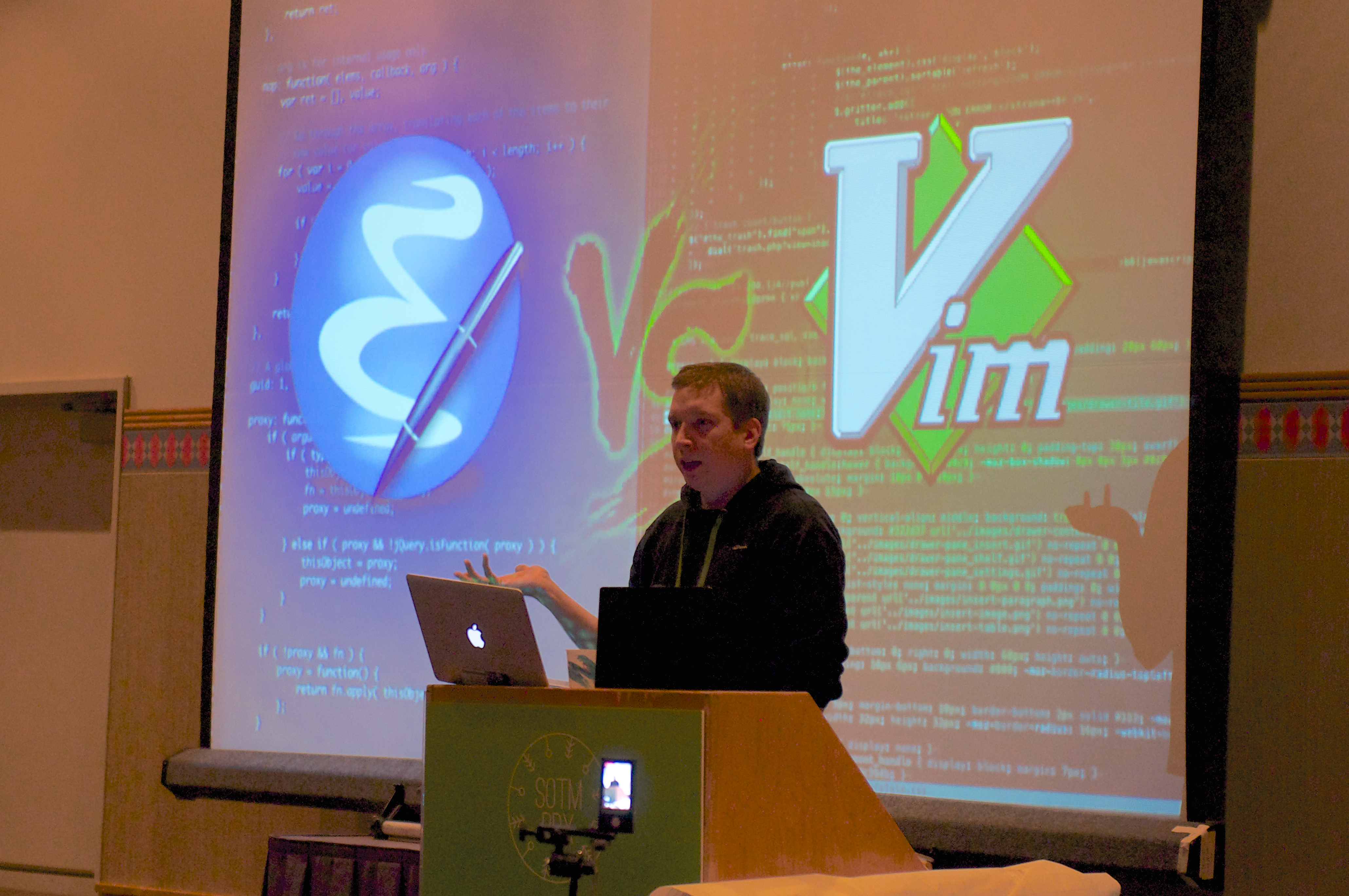 Steve Coast, founder of OpenStreetMap, addresses the conference State of the Map US 2012